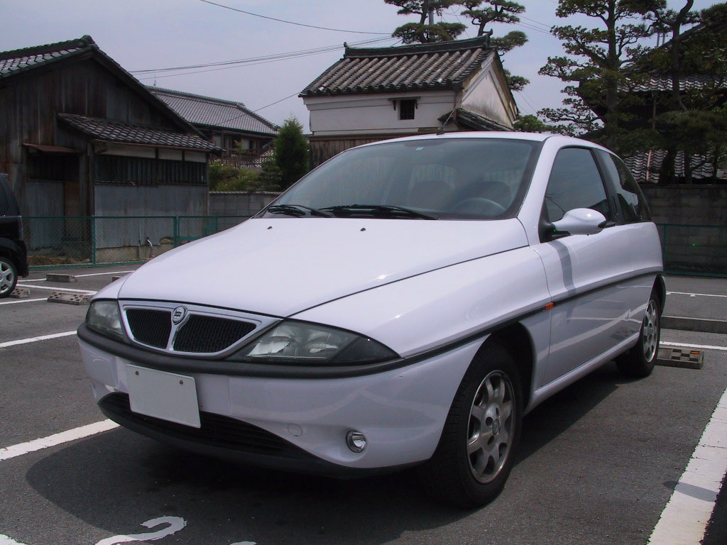 A front view of Lancia Y